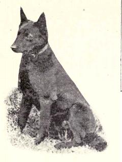 Barb aka Australian Sheep Dog from 1915